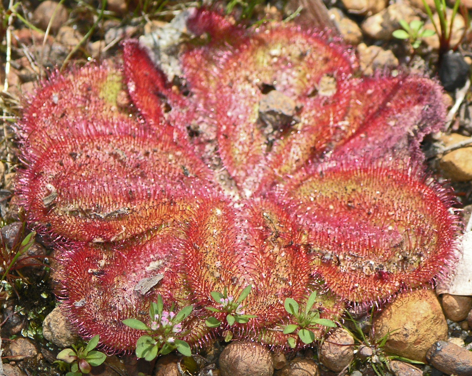 Drosera erythrorhiza taken on a bush walk, Jarrahdale, Perth, Western Australia. I will post more information about the flower if I can find out more.